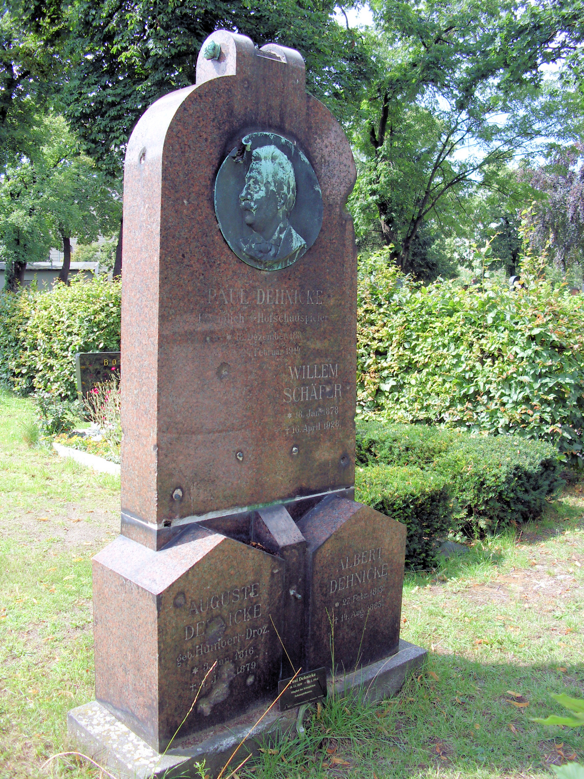 Grave of Paul Dehnicke in Berlin-Kreuzberg